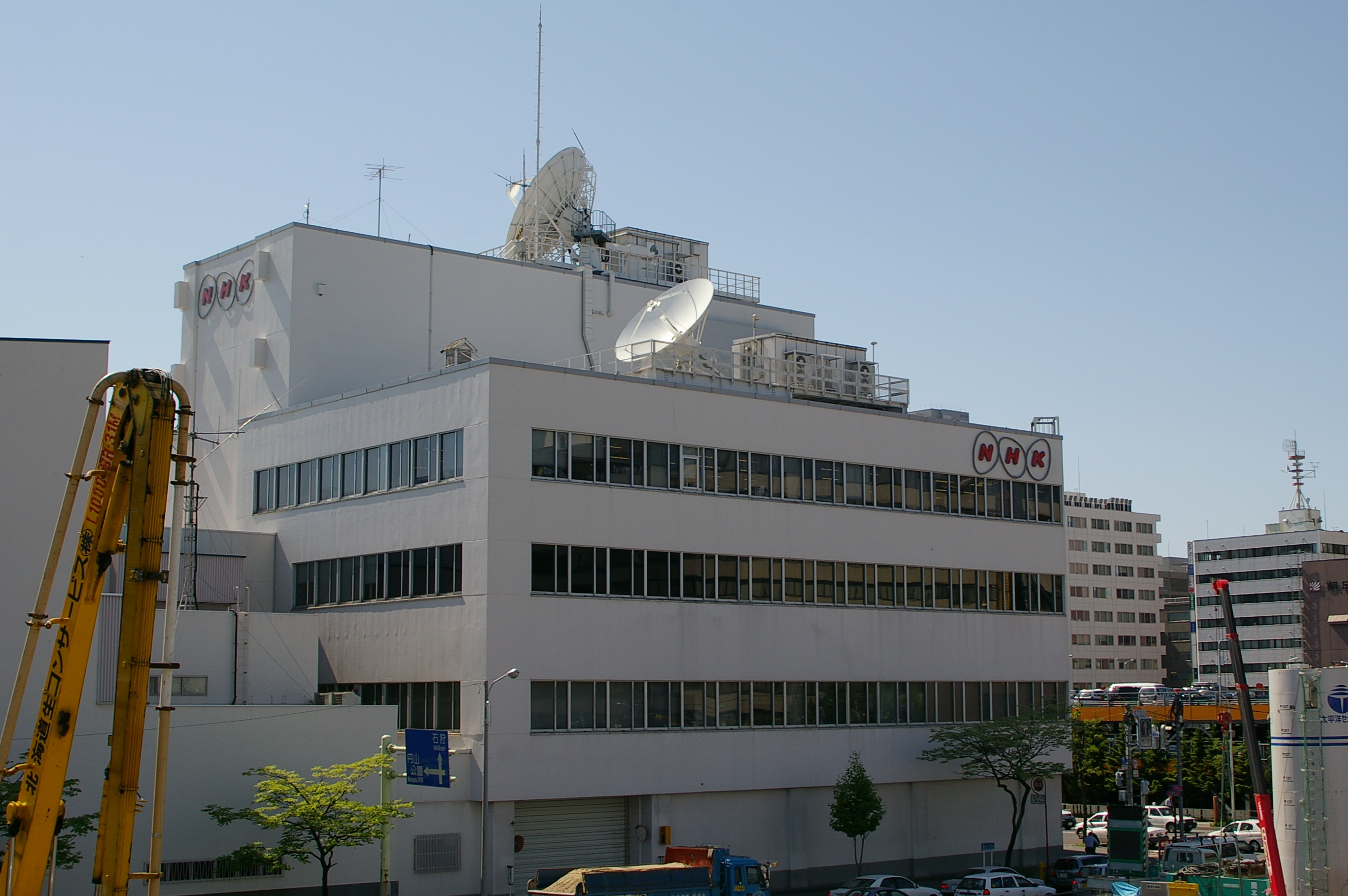 NHK Sapporo Broadcasting Station (annex) in Chuo-ku, Sapporo City, Hokkaido, Japan